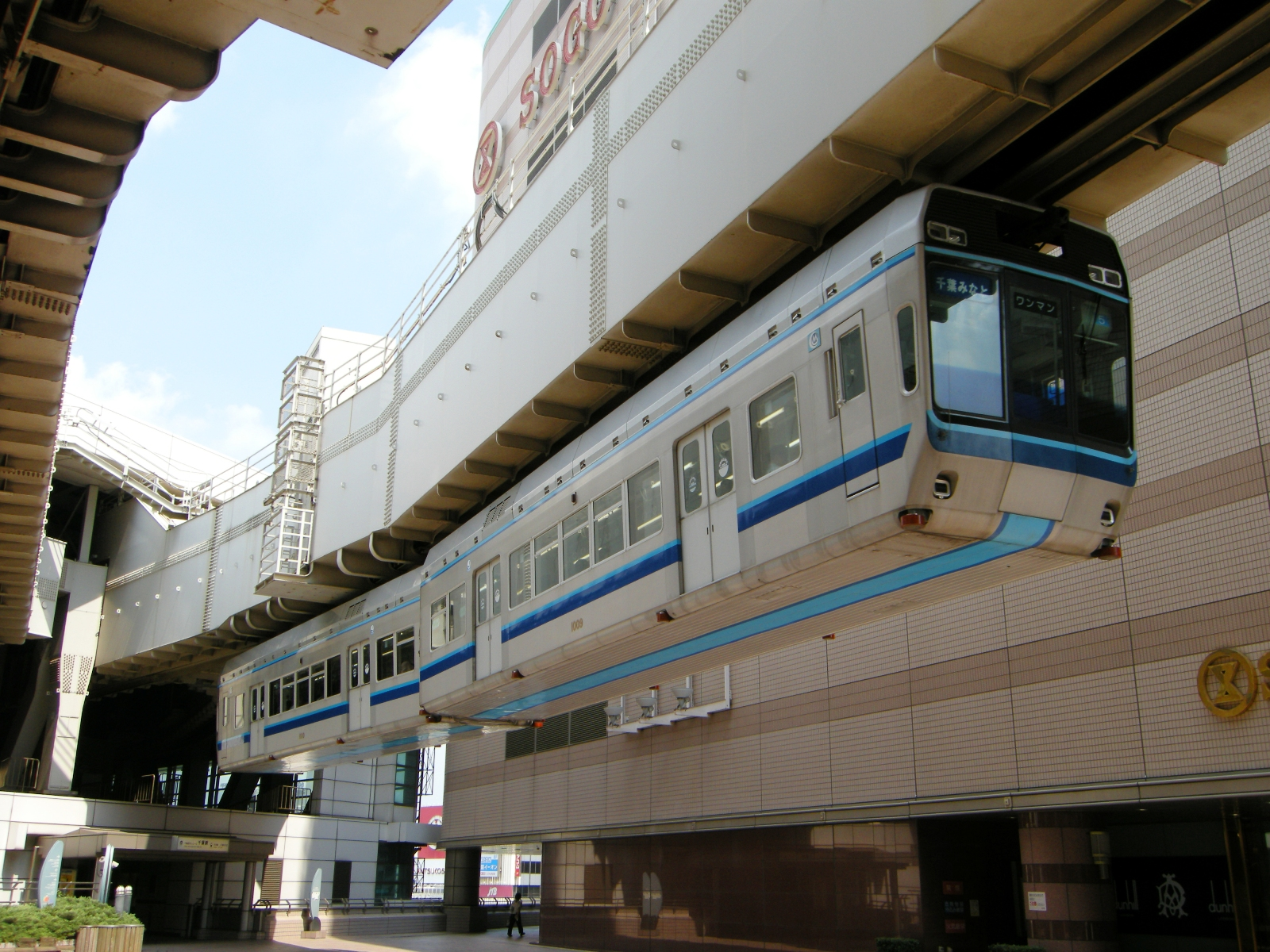 Series 1000 EC operated by Chiba Urban Monorail Co.,Ltd.